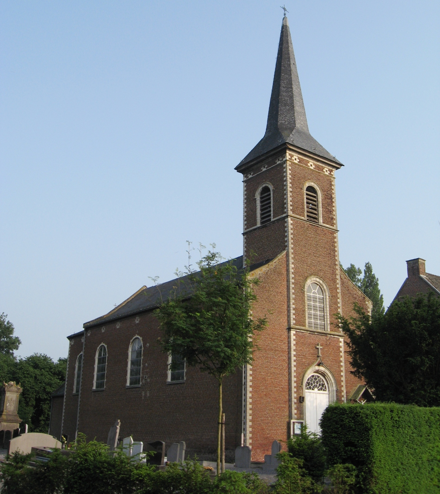 Church of Saint Odulphus in Booienhoven, Halle-Booienhoven, Zoutleeuw, Flemish Brabant, Belgium